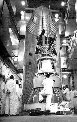 The fairling of the Delta 1913 (D-95) is installed oround Explorer 49 (RAE-B).